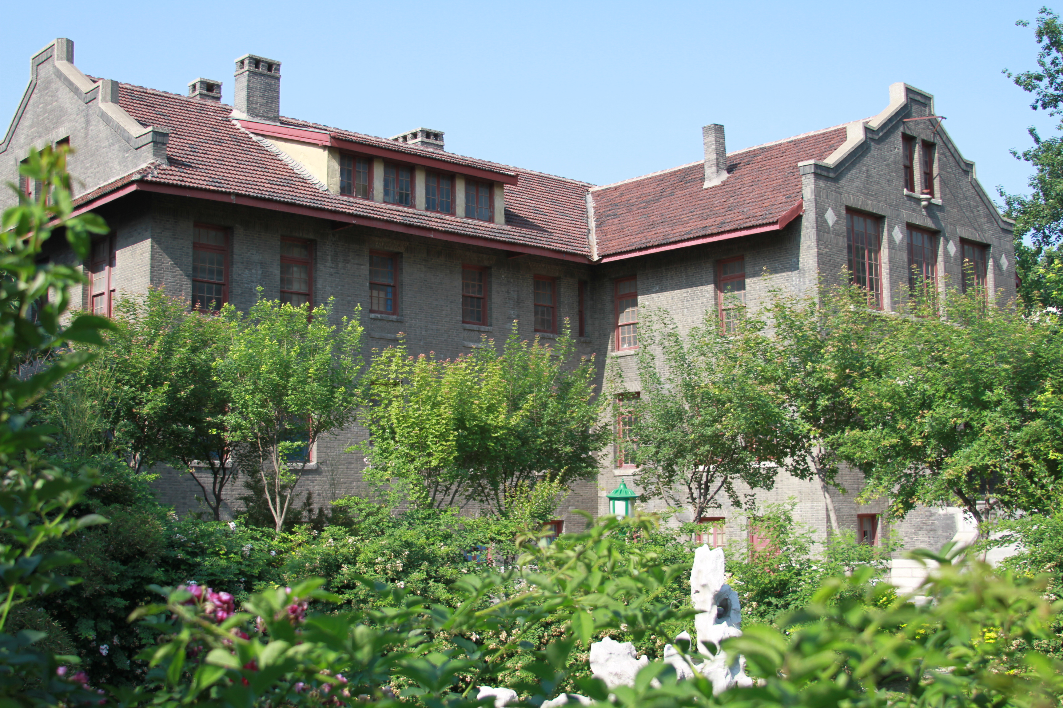 Photograph of one of the main buildings of the Weihsien Internment Camp, Weifang, Shandong, China seen from the adjacent park.